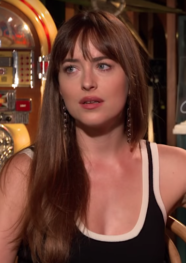 Dakota Johnson, 2018